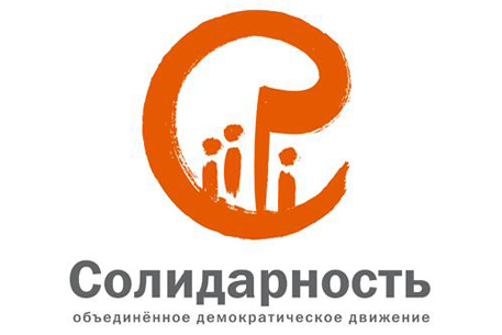 Logo The democratic movement SOLIDARNOST (Russia)